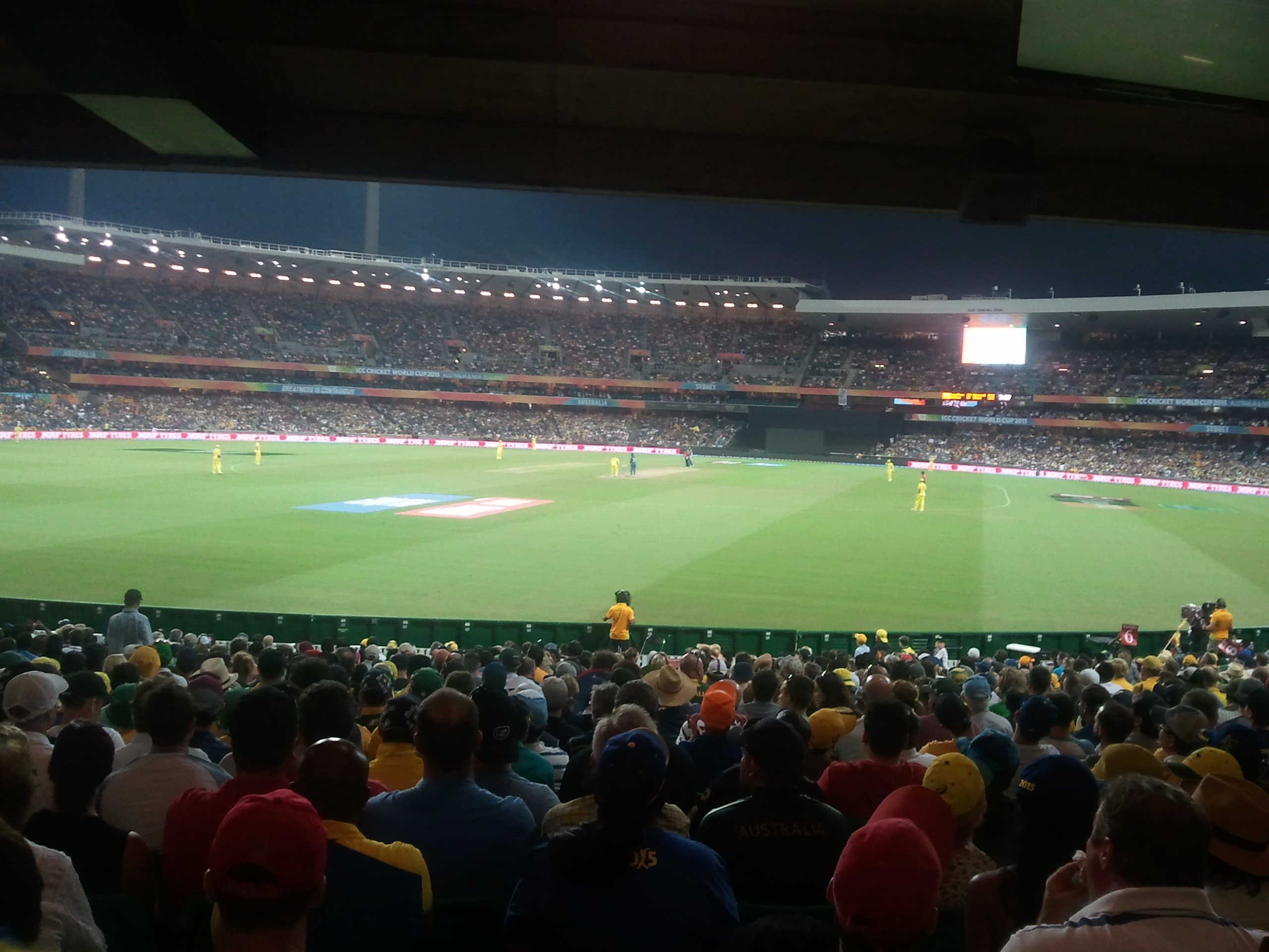 The Sydney Cricket Ground was packed full to watch Sri Lanka and Australia contest a semi-final of the 2015 cricket world cup. The away side had such vocal support that they almost sung their team home.